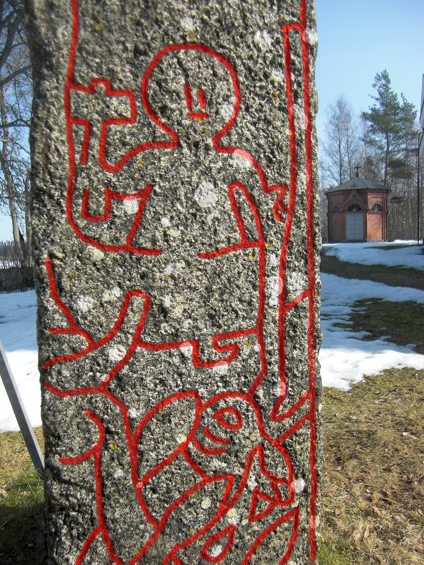 Thor and the Midgard Serpent from the Altuna runestone at Altuna church, Enköpings municipality, Uppland, Sweden. The carving shown the Old Norse god Thor getting the Midgard Serpent Jörmungandr on the hook, and aiming with his hammer Mjolnir to slay the Midgard Serpent. Photo and Photoshoping by Achird.